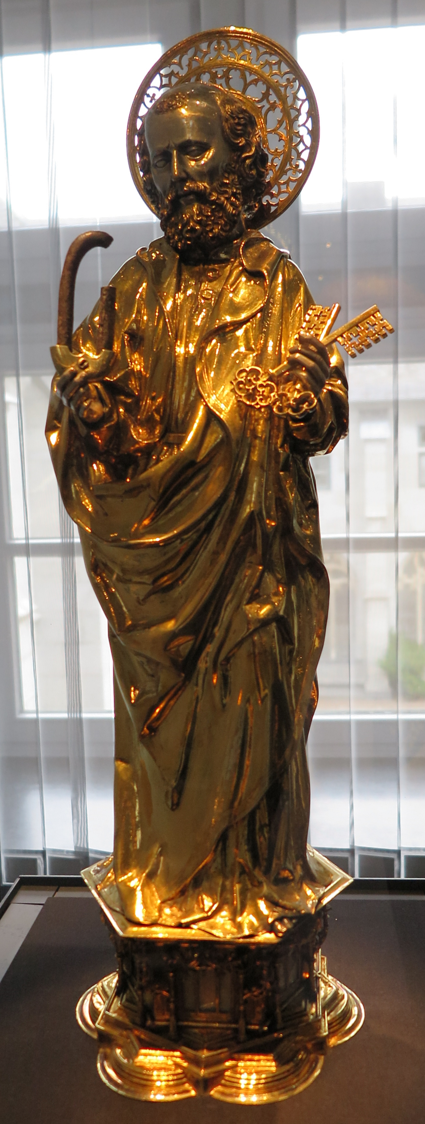 Saint Peter of the goldsmith Hans von Reutlingen from 1510 in the Aachen Cathedral Treasury.